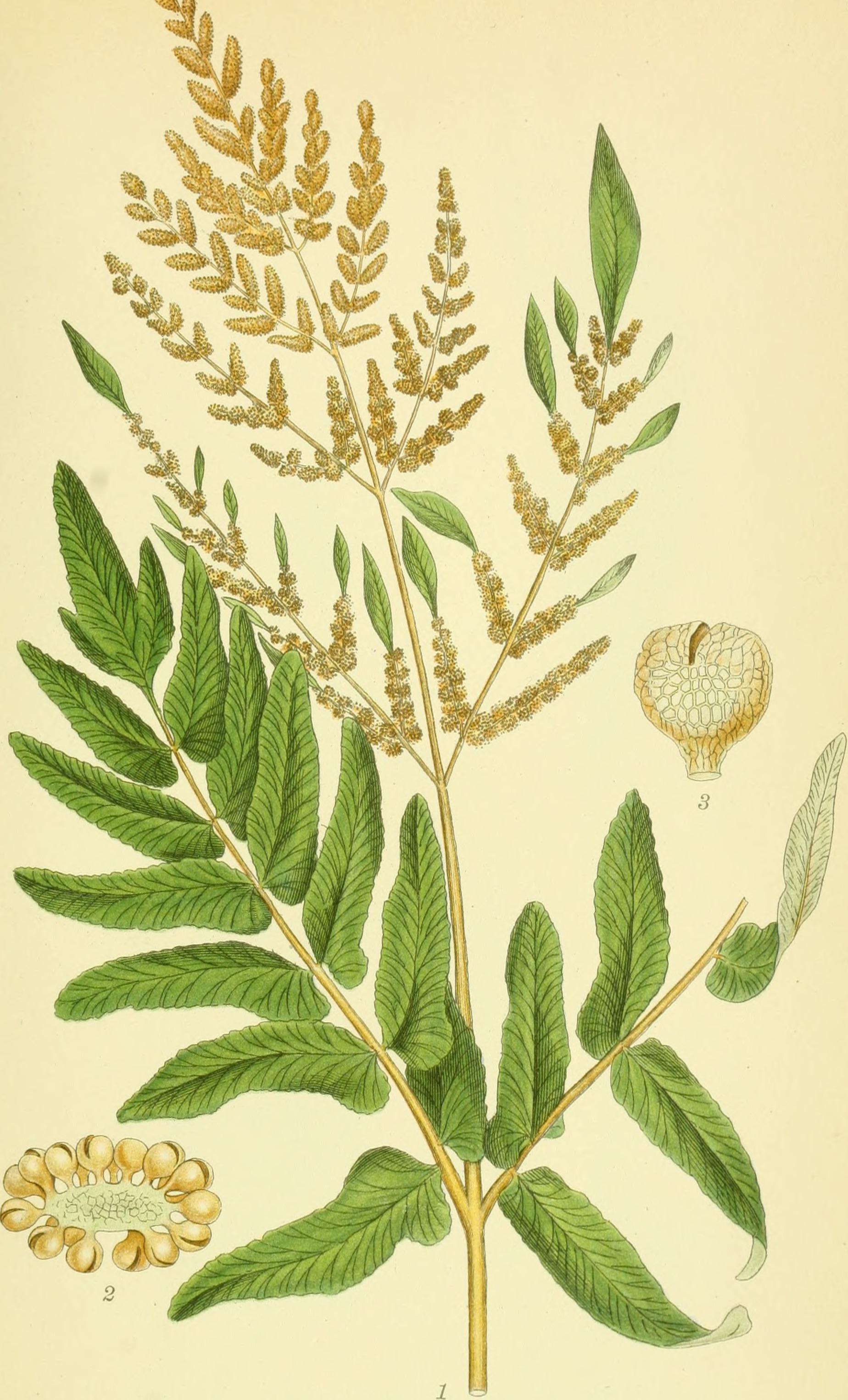 Title: Billeder af nordens flora Year: 1917 (1910s) Authors: Mentz, August, 1867-1944; Ostenfeld, C. H. (Carl Hansen), 1873-1931 Subjects: Plants; Plants; Plants Publisher: København, G. E. C. Gad's forlag Text Appearing Before Image: ' Text Appearing After Image: 509 KONGEBREGNE, osmunda regalis. A.B6RT7ELLSTR. A. B. STHli^.